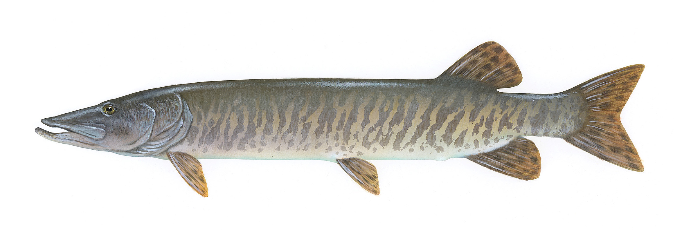 A Muskellunge